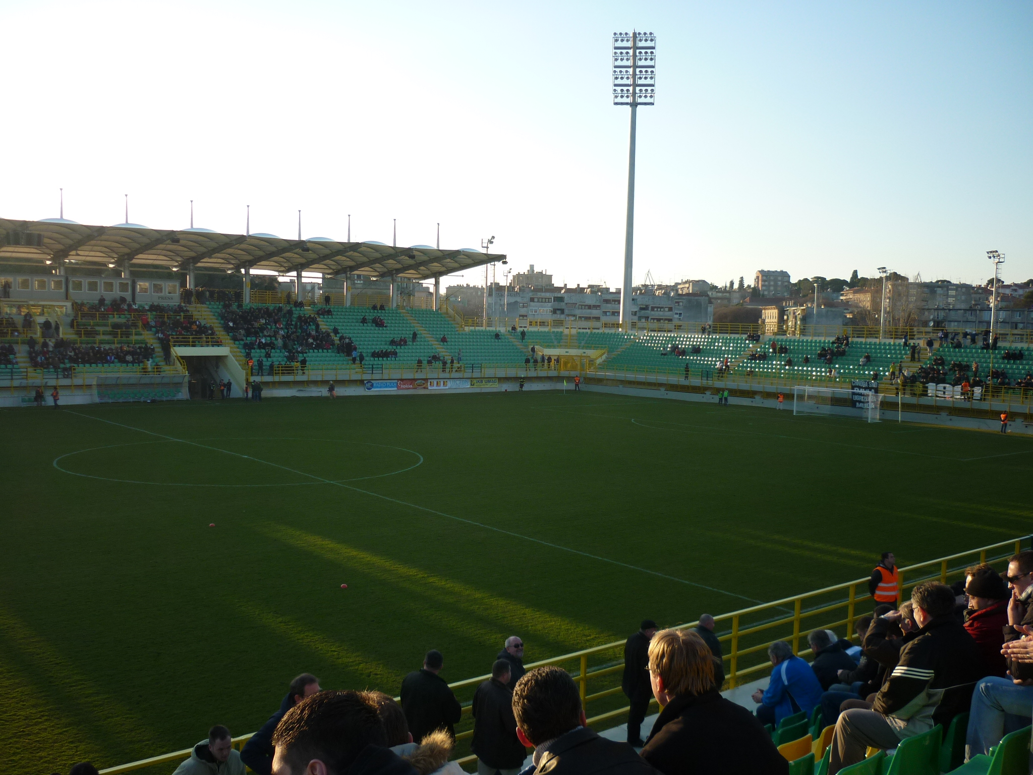 Stadium Aldo Drosina in Pula